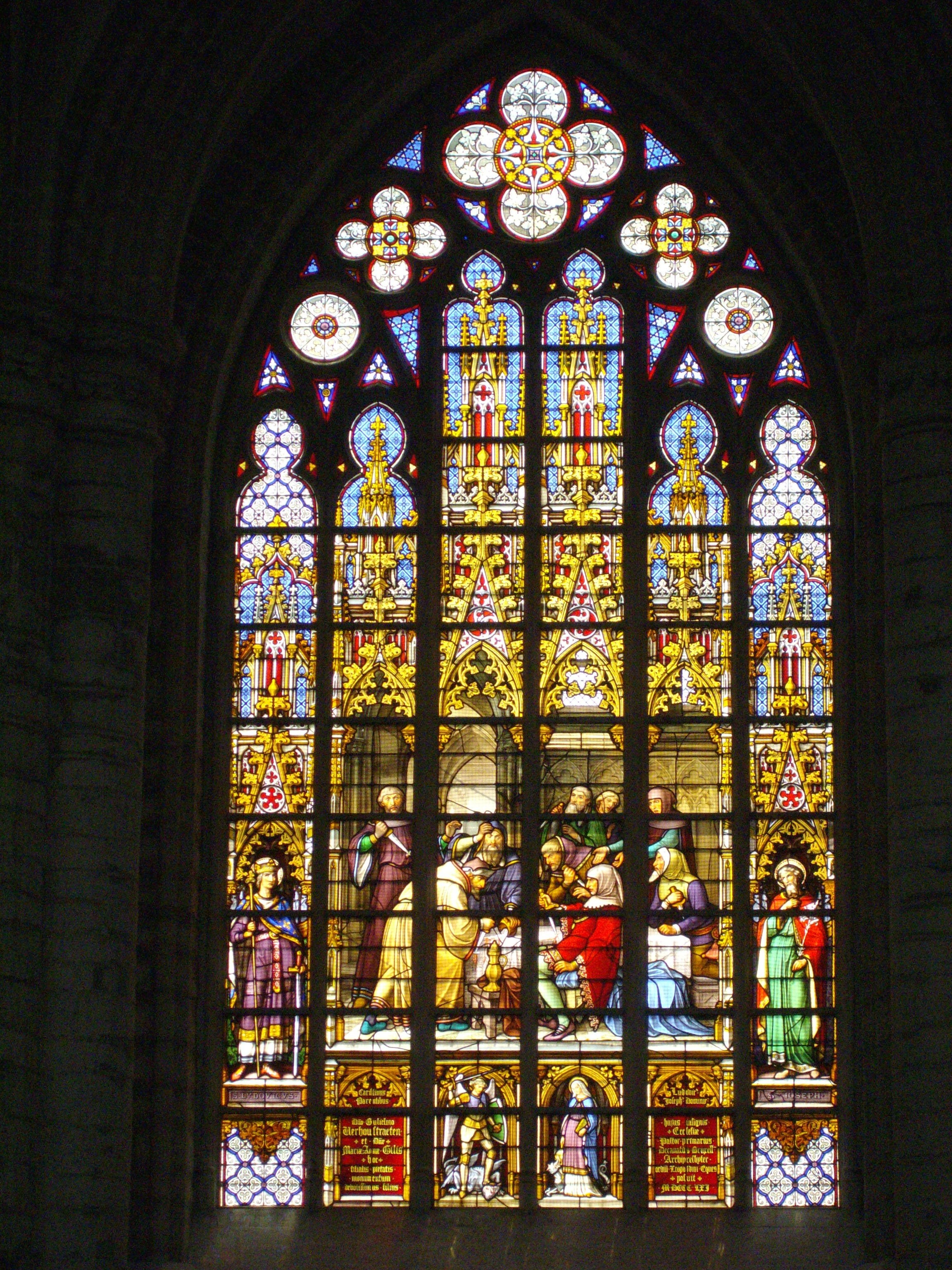 A stained glass piece of the Holy Sacrament : desecration of Holy Hosts by the Jews in 1370, in the St. Michael and St. Gudula Cathedral in Brussels (Belgium), the stained glass itself was created by a JB Capronnier in the 19th century